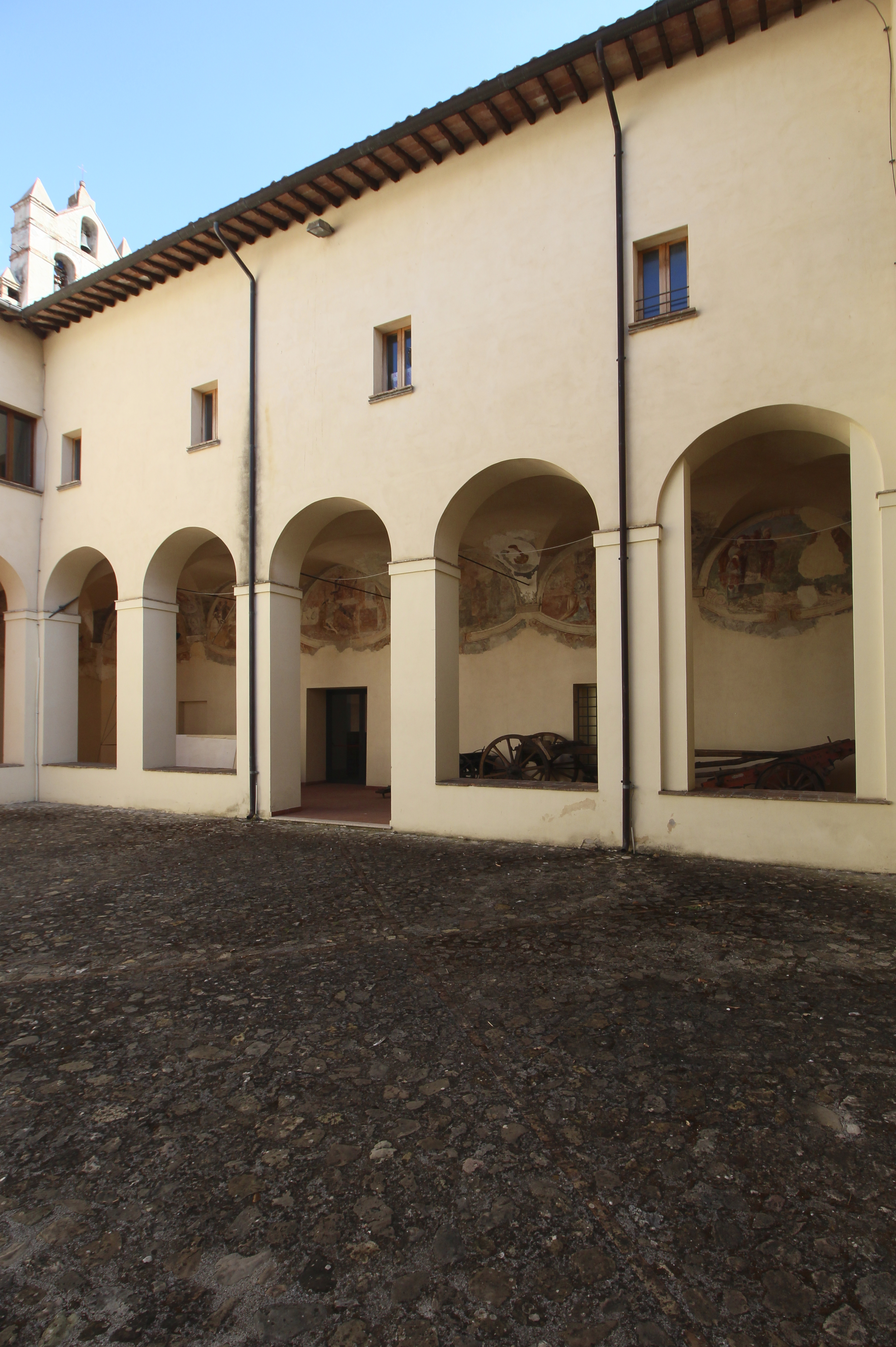 church Santa Maria della Pace, cloister, Massa Martana, Province of Perugia, Umbria, Italy